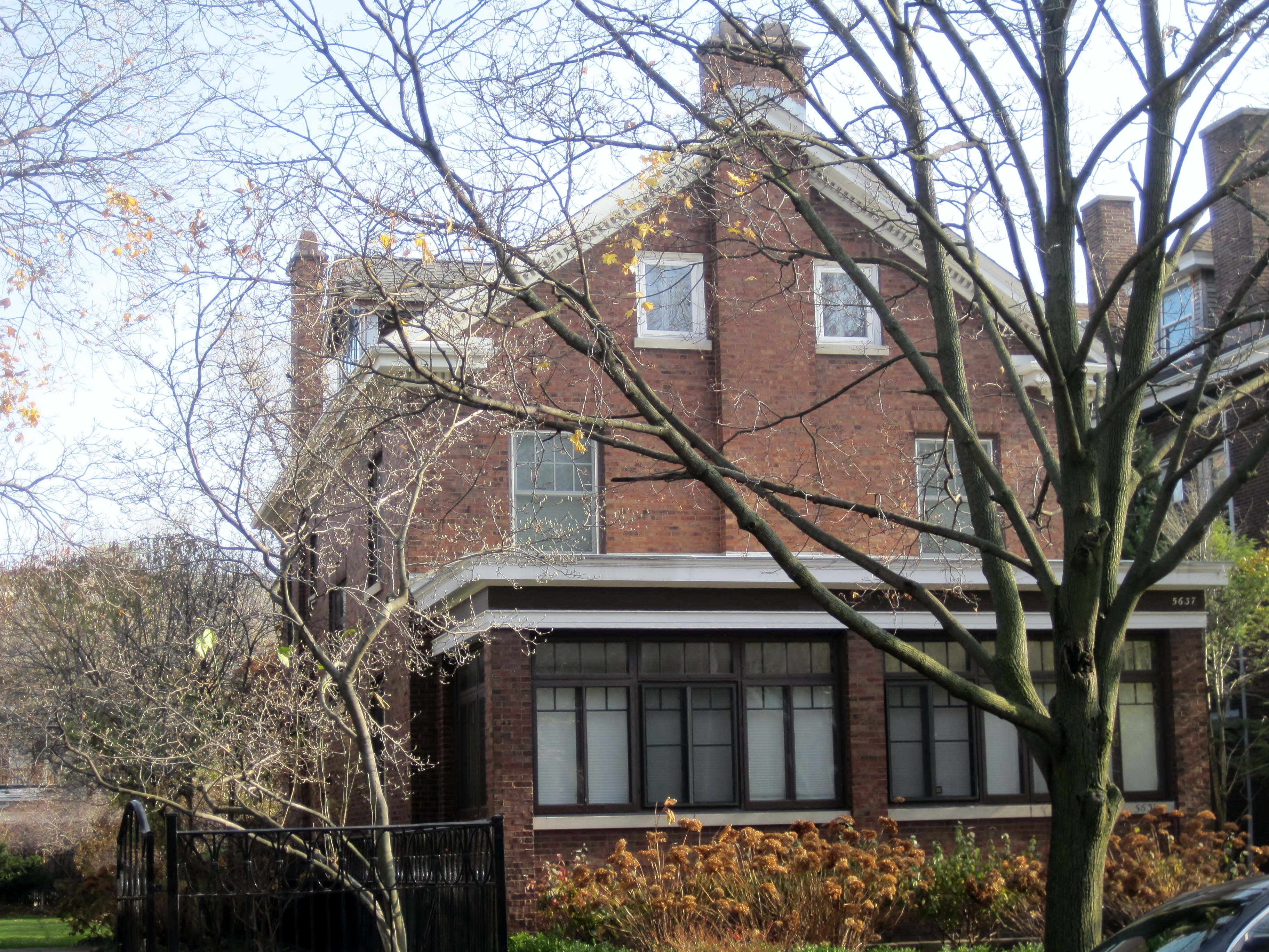 The Arthur H. Compton House in Chicago, a national landmark (1916). Compton was born in Ohio as the son of the dean of the College of Wooster. Arthur Compton earned his Ph.D. from Princeton, just like his other two brothers. Compton is best known for Compton scattering, which demonstrated the particle aspect of electromagnetic radiation. He fired X-rays at a known wavelength at atoms to observe the effect on wavelength. If light was indeed a particle, then the wavelength would inevitably change upon contact with the atom. Indeed, scattered rays had a larger wavelength than the initial X-ray, since the atom absorbed some of the momentum. He was able to devise a formula to predict the change in wavelength based on the rest mass of the electron, establishing the Compton wavelength (2.426 x 10^-12 m for the electron). Compton won the Nobel Prize for Physics in 1927. He began to teach at the University of Chicago two years later. In 1941, Compton was tasked with the S-1 Uranium Committee, which later evolved into the Manhattan Project. Compton wanted to isolate plutonium at Chicago, a plan that immediately sprang into motion after the attack on Pearl Harbor. He organized the Metallurgical Laboratory, the top-secret lab at Chicago. In September 1942, plutonium was isolated, and in December, a team led by Enrico Fermi sustained a chain reaction in the world's first nuclear reactor. After the nuclear bomb was assembled in 1945, Compton advocated for its use against Japanese cities.